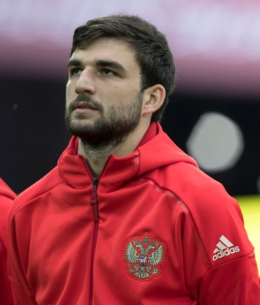 Georgi Dzhikiya Yuri Zhirkov Feodor Kudryashov